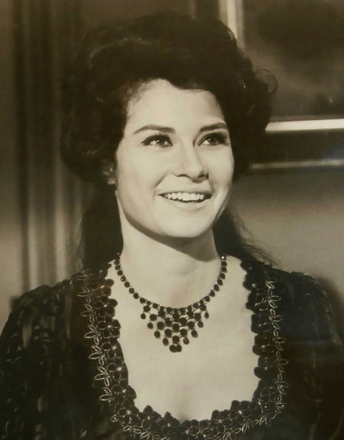 Promotional photo of Diane Baker guest starring in The Virginian, episode "A Love To Remember", 1969.